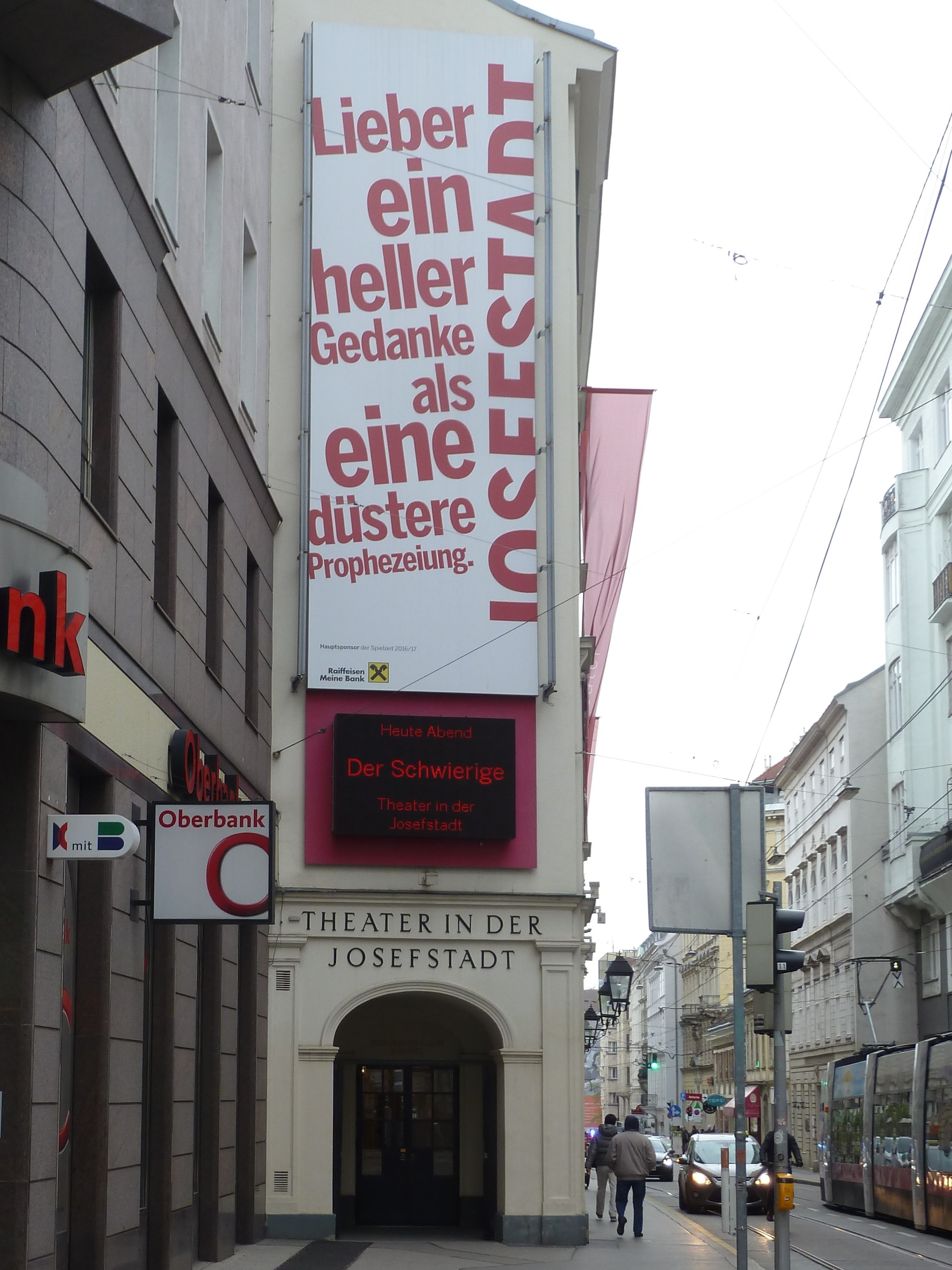 Theater in der Josefstadt in Wien; Der Schwierige von Hugo von Hofmannsthal, may 2017